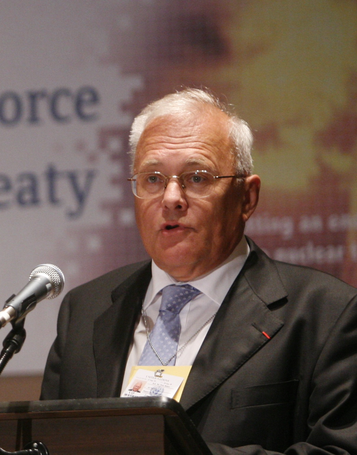 CTBTO Photo/ Sophie Paris The Conference on Facilitating the Entry Into Force of the Comprehensive Nuclear-Test-Ban Treaty. H.E. Mr. Peter Balazs, Minister of Foreign Affairs of Hungary, makes a statement. Location: United Nations, New York Date: 24 September 2009